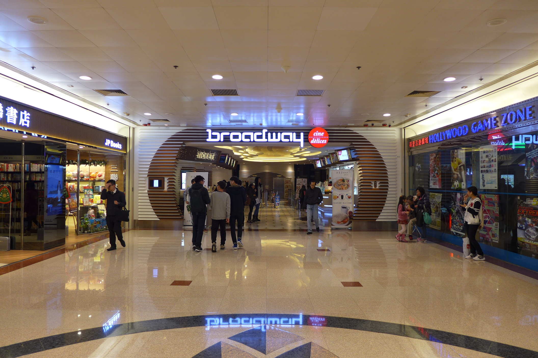 Broadway Cinema, Plaza Hollywood